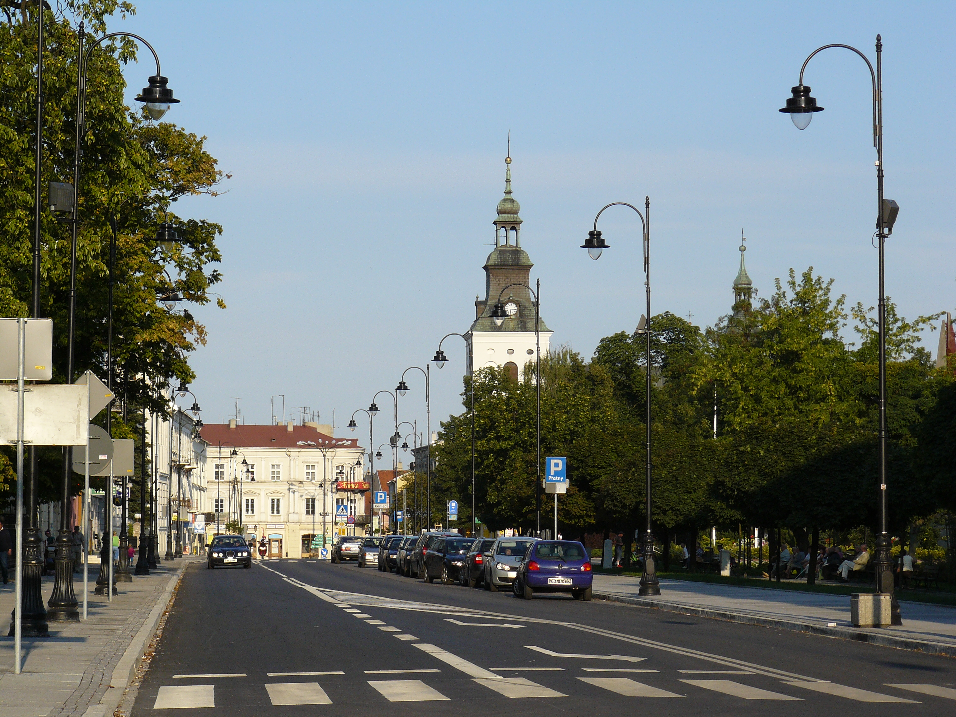 Slowackiego Street in Piotrkow Trybunalski